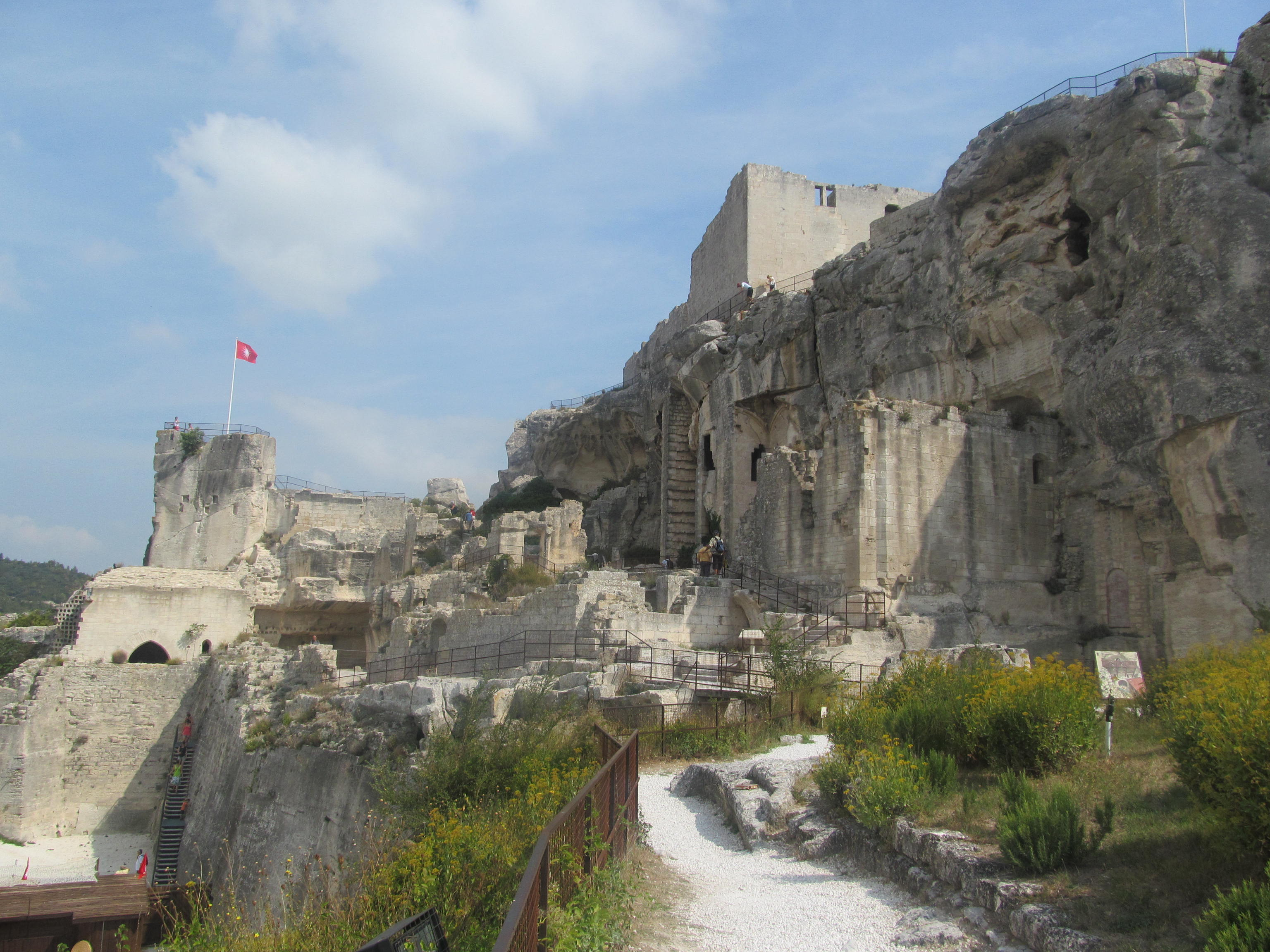 Les Baux de Provence: Donjon and Tower Paravelle